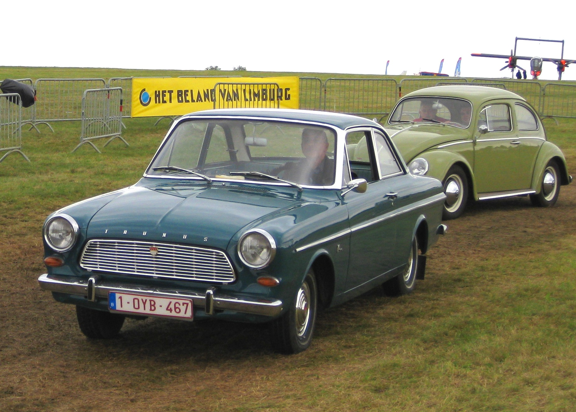 Ford Taunus P4 Coupé in Vlaams-Brabant